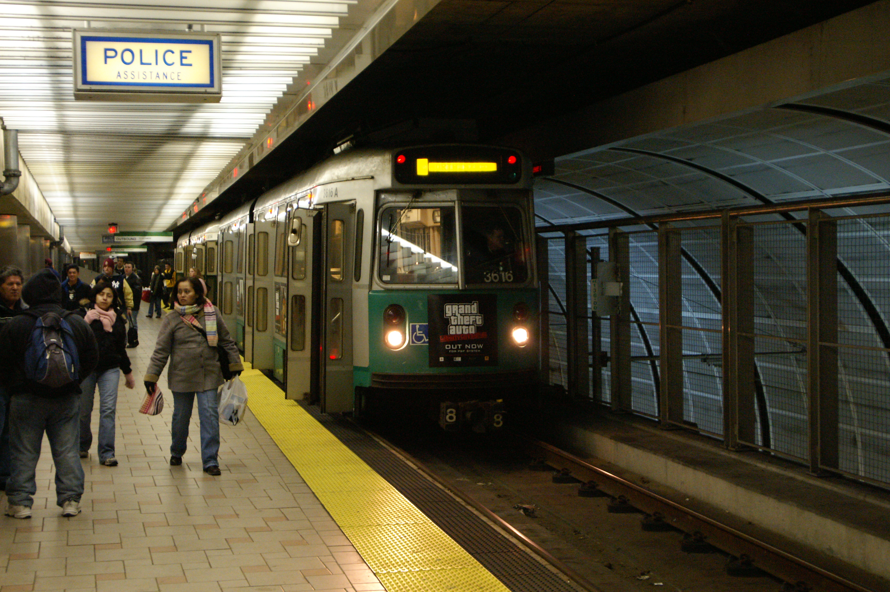 Type 7 car #3616 deboards passengers on a northbound train at North Station in February 2006